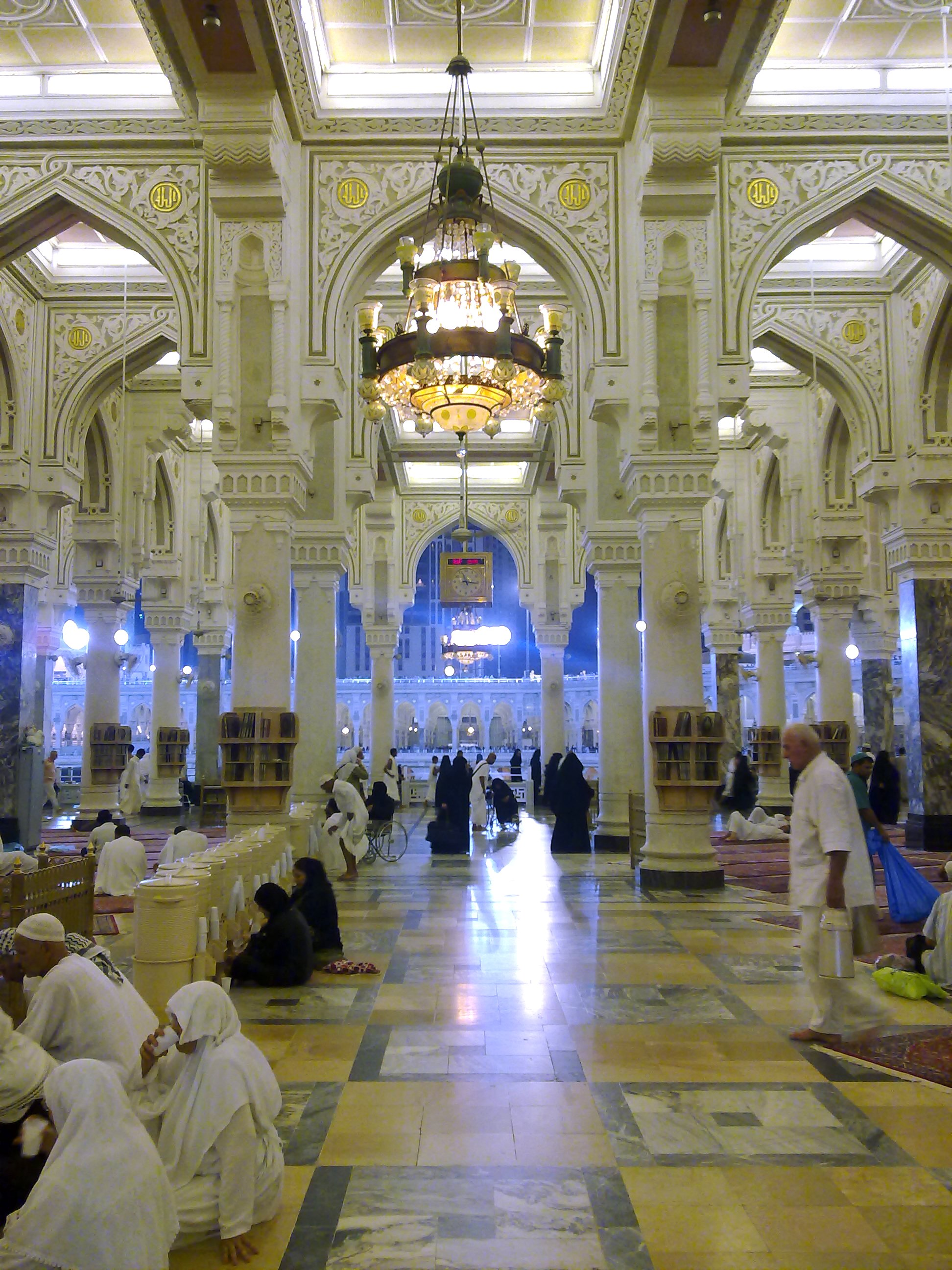 View of interior of Mesjid Haram taken during Ramadan 2010